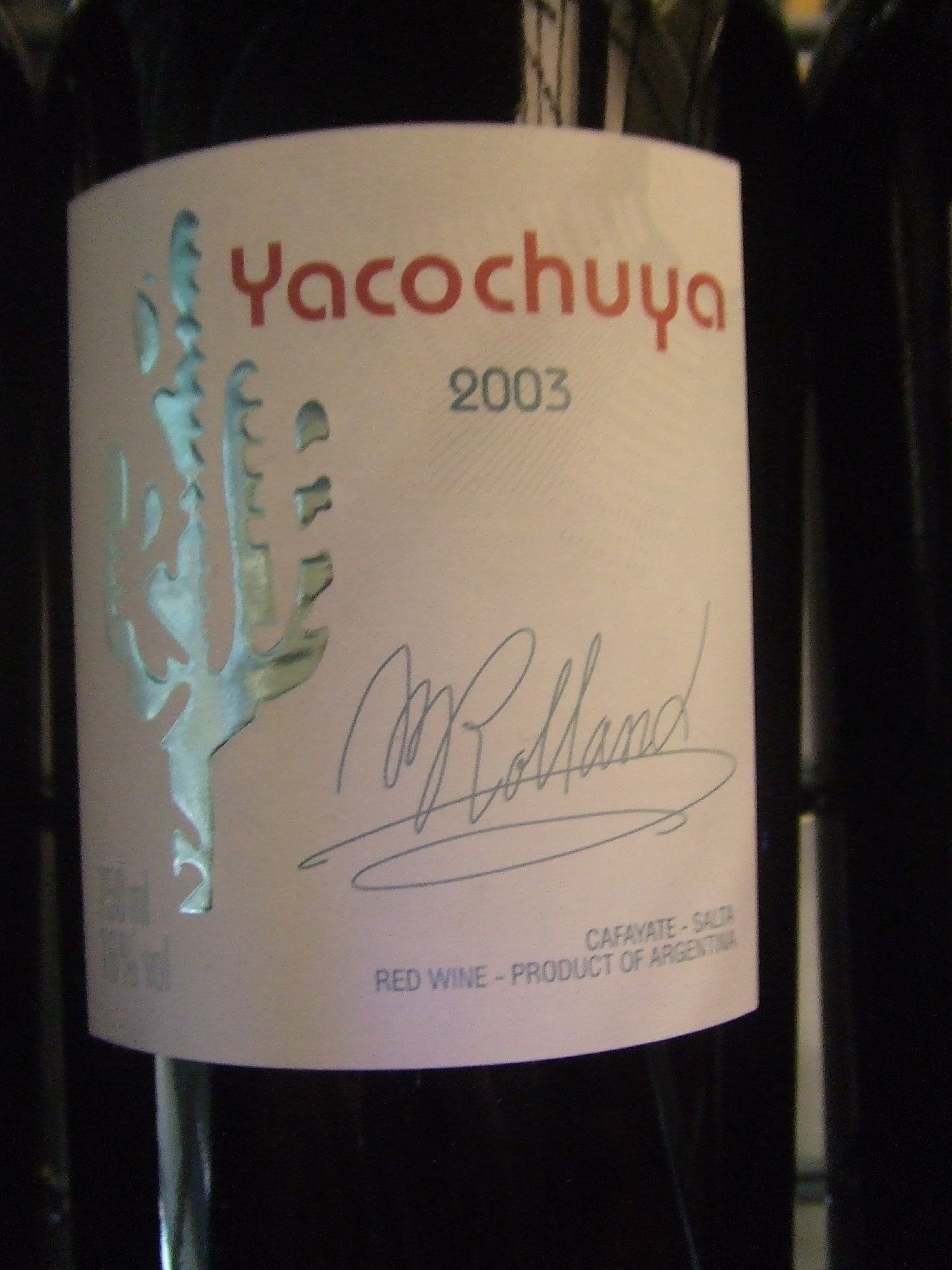 French winemaking consultant Michel Rolland's signature on a bottle of Argentine wine that he help create